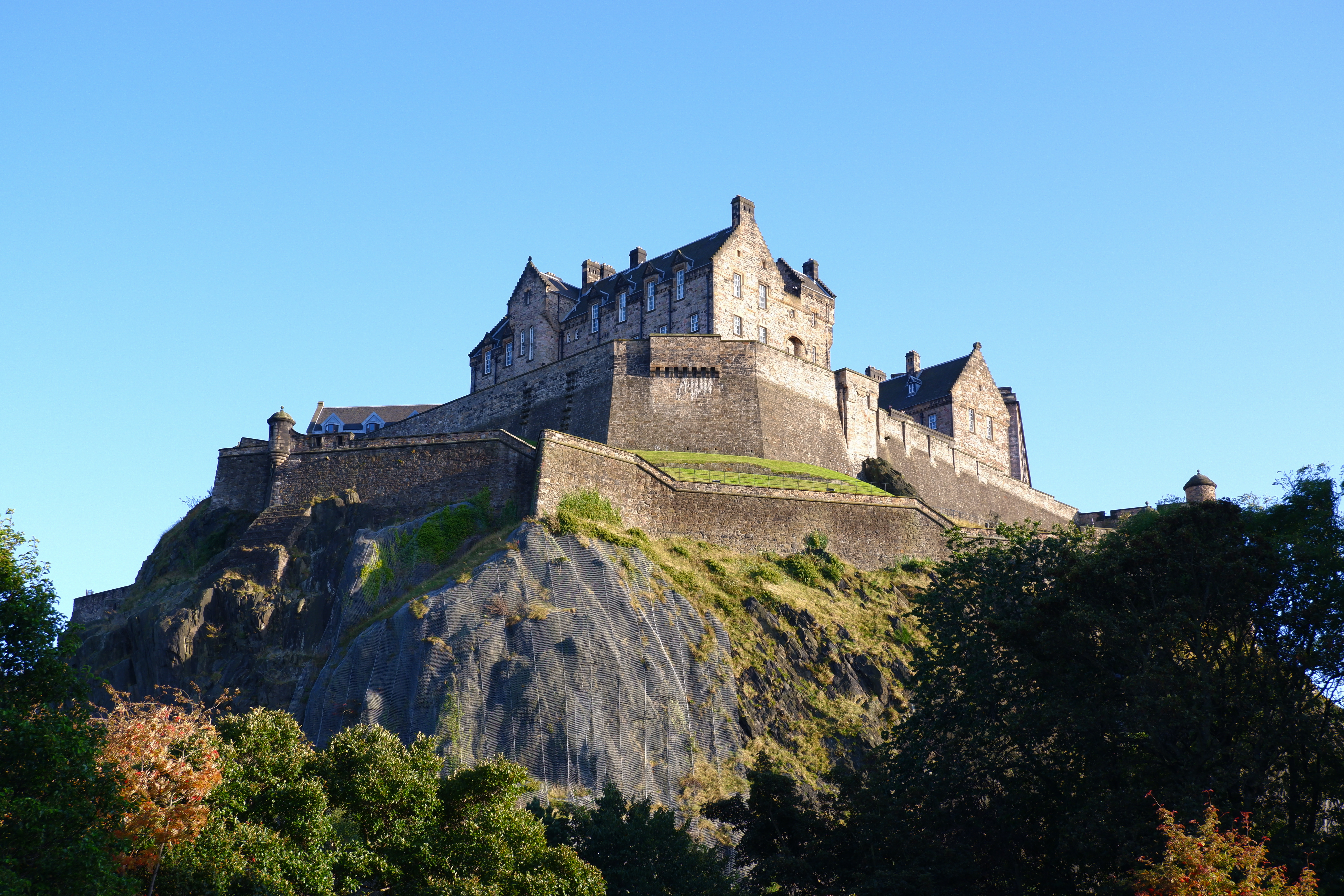 Edinburgh Castle from Ross Fountain